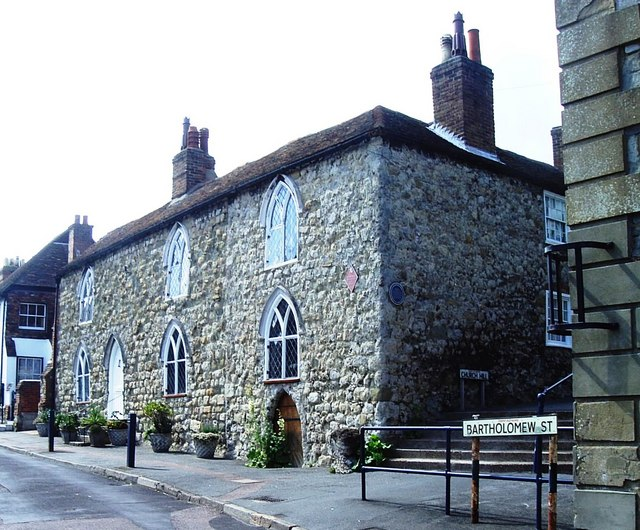 St Bartholomew's Hospital, Hythe Taken from the corner of Bartholomew Street and Great Conduit Street. St Bartholomew's became a hospital in medieval times and was the birthplace of Haymo of Hythe, a fourteenth century bishop of Rochester. The building stone is Kentish Rag (Hythe Beds limestone) of which there were plentiful supplies locally.